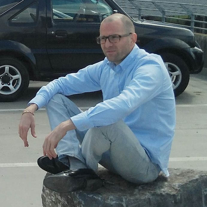 Filip Gilissen Portrait